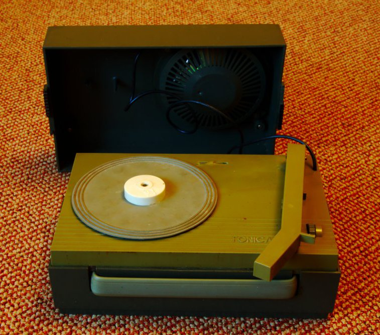 Polish record player "Bratek"